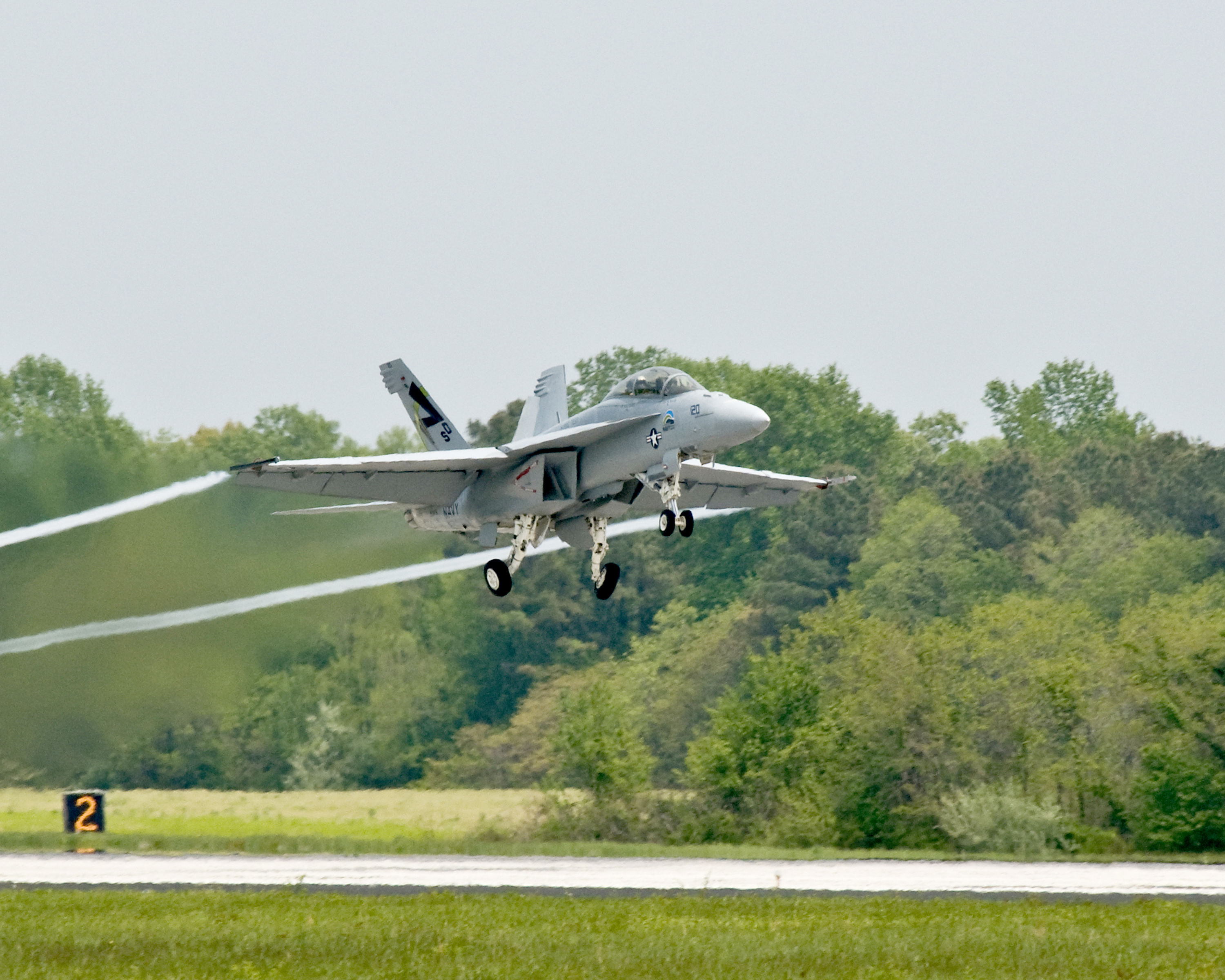 PATUXENT RIVER, Md. (April 22, 2010) The Navy celebrates Earth Day by showcasing a supersonic flight test of the "Green Hornet," an F/A-18 Super Hornet strike fighter jet powered by a 50/50 biofuel blend. The test, conducted at Naval Air Station Patuxent River, Md., drew hundreds of onlookers that included Secretary of the Navy Ray Mabus, who has made research, development, and increased use of alternative fuels a priority for the Department of the Navy. (U.S. Navy photo by Kelly Schindler/Released)